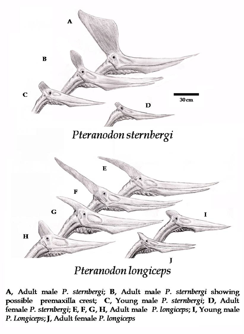 Illustration of the variation in cranial anatomy in both species of Pteranodon. Pencil drawing by Smokeybjb. Specimens: A) FHSM VP 339 B) UALVP 24238 C) D) NMC 41-358 E) YPM 2594 F) YPM 2473 G) DMNH 1732 H) KUVP 27821 I) J)